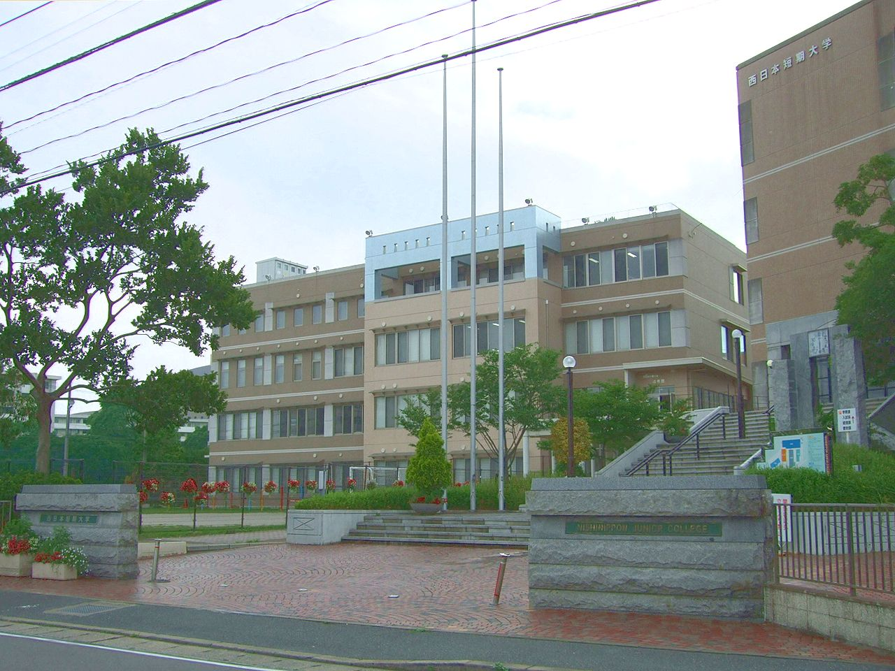 Nishinippon Junior College Fukuhama Campus, Chuo Ward, Fukuoka City, Fukuoka, Japan.